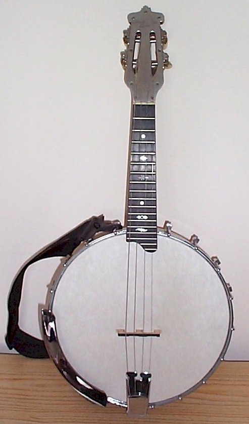 A John Grey & Sons banjolin circa 1920.